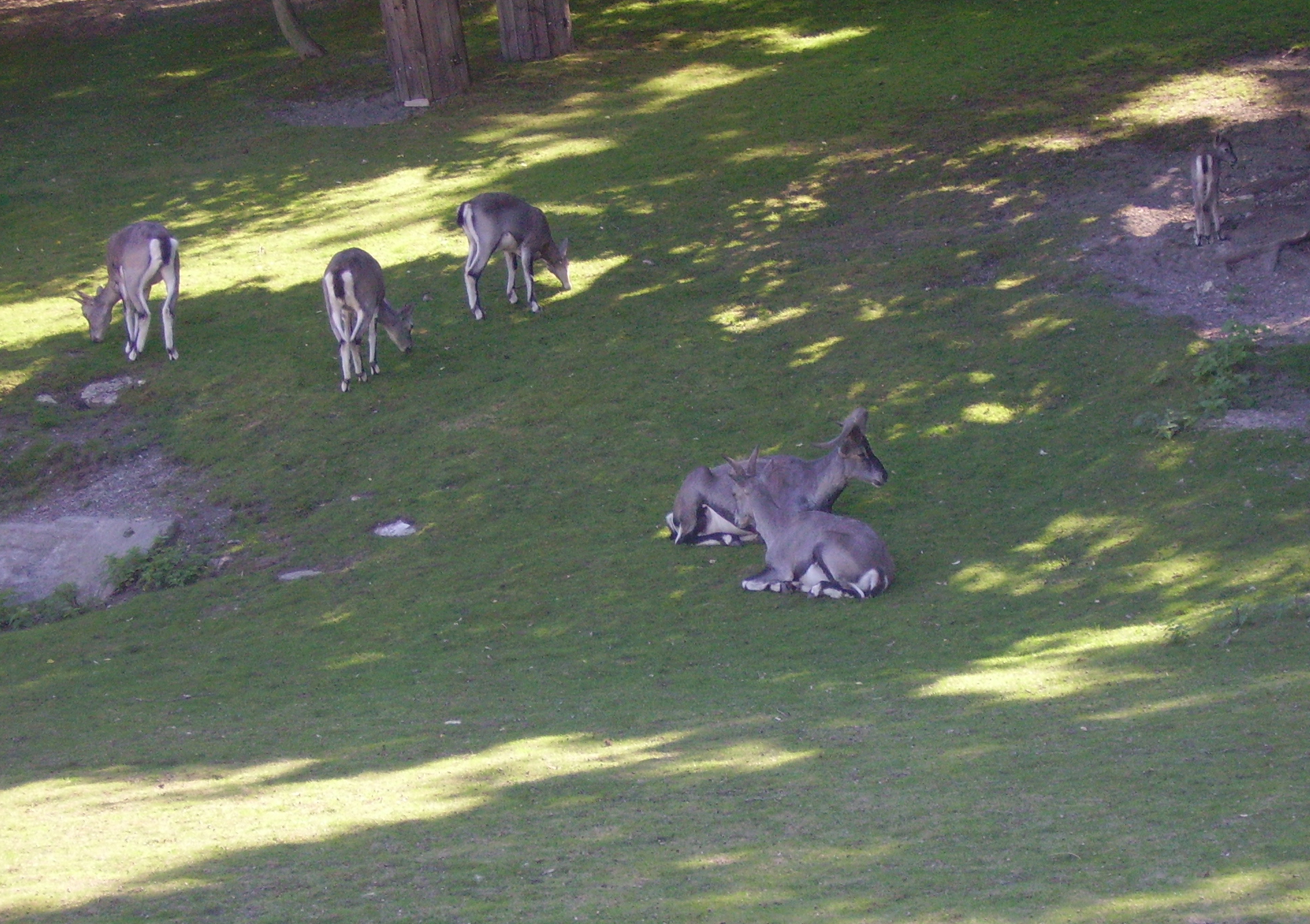 Bharal